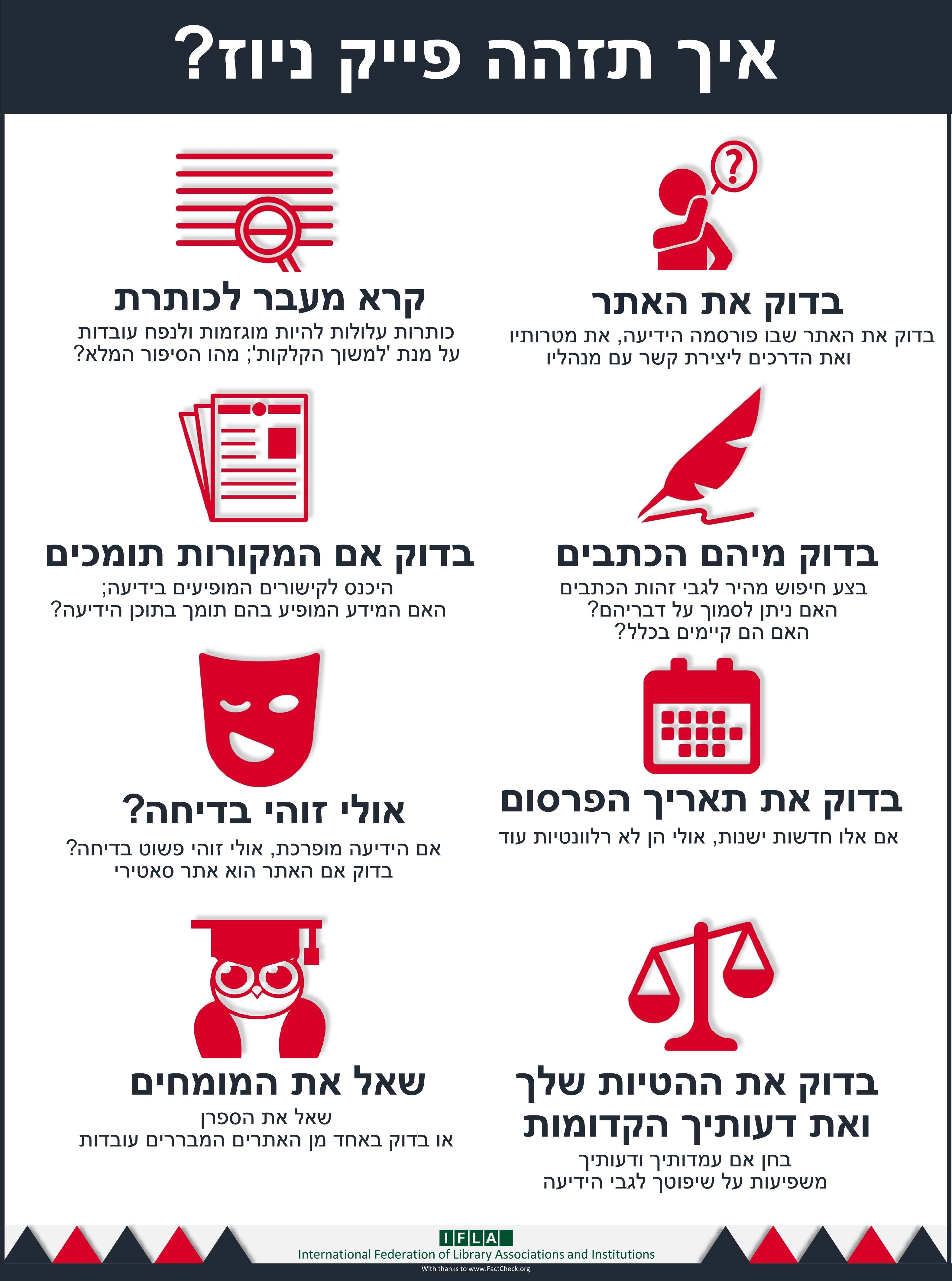 Hebrew translation of IFLA infographic based on ’s 2016 article "How to Spot Fake News" in JPG format.